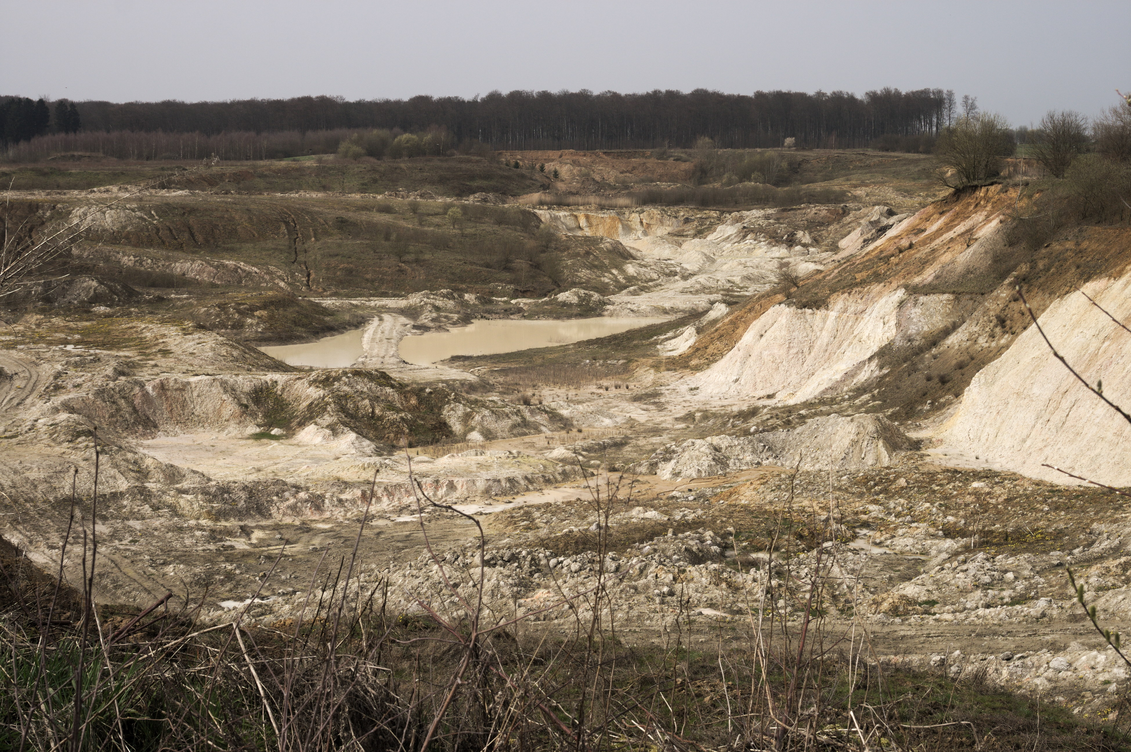 View into the northern part of the clay quarry between Ötzingen and Leuterod, Westerwald, Germany. The camera points towards west. The pit has a dimension of approx. 700 m (north-south) x 350 m